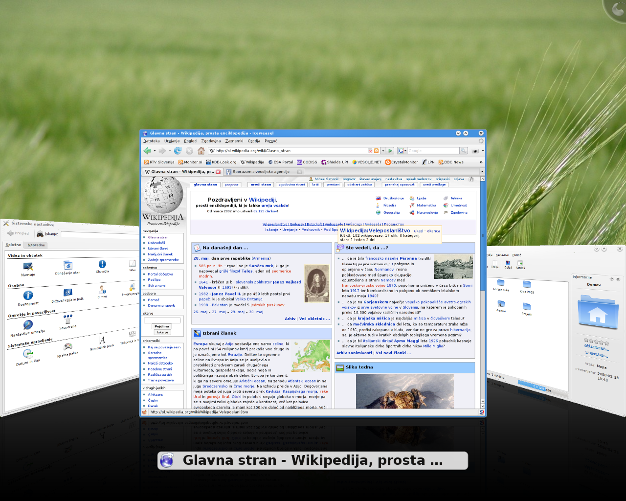 Kwin Cover Switch Desktop Effect